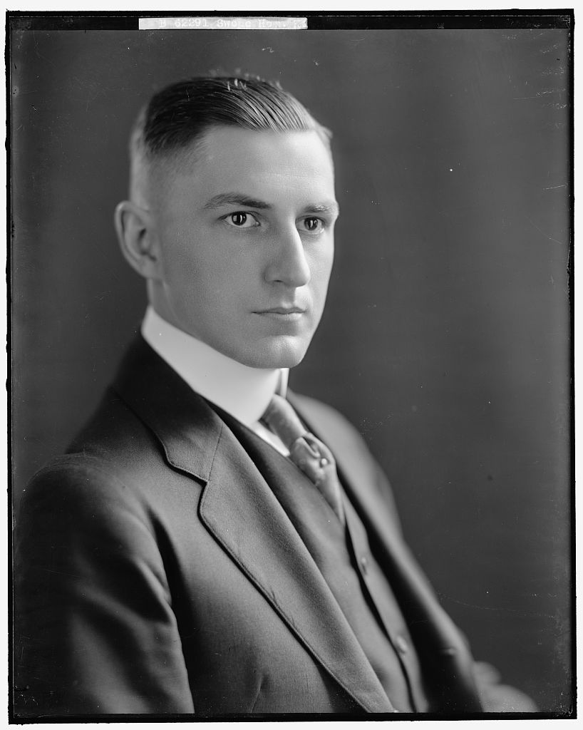 Kentucky Congressman King Swope